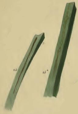 Stainton’s Natural History of the Tineina (1855–1873): Monochroa arundinetella mined leaves of Carex riparia (2b, 2b*)